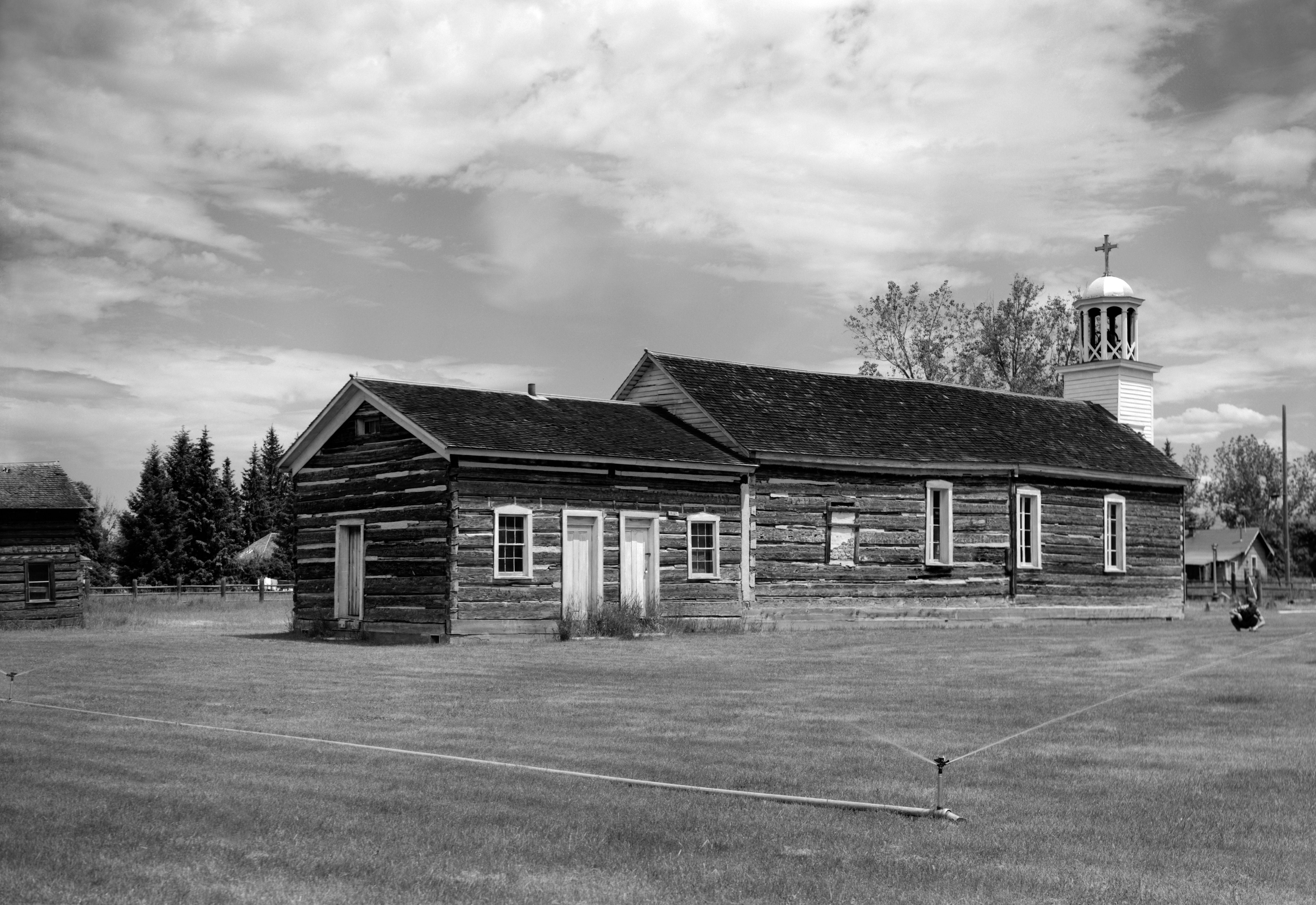 Southwestern view of St. Mary's Roman Catholic Mission, located along North Avenue in Stevensville, Ravalli County, Montana, United States. Together with the attached pharmacy, visible on the far left, the church (built in 1866) is listed on the National Register of Historic Places as St. Mary's Church and Pharmacy.